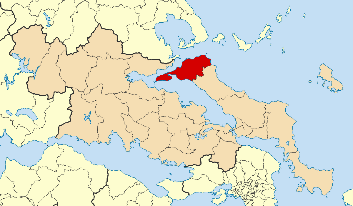 Locator map for Istiea-Edipsos municipality in Greek region Central Greece (2011)